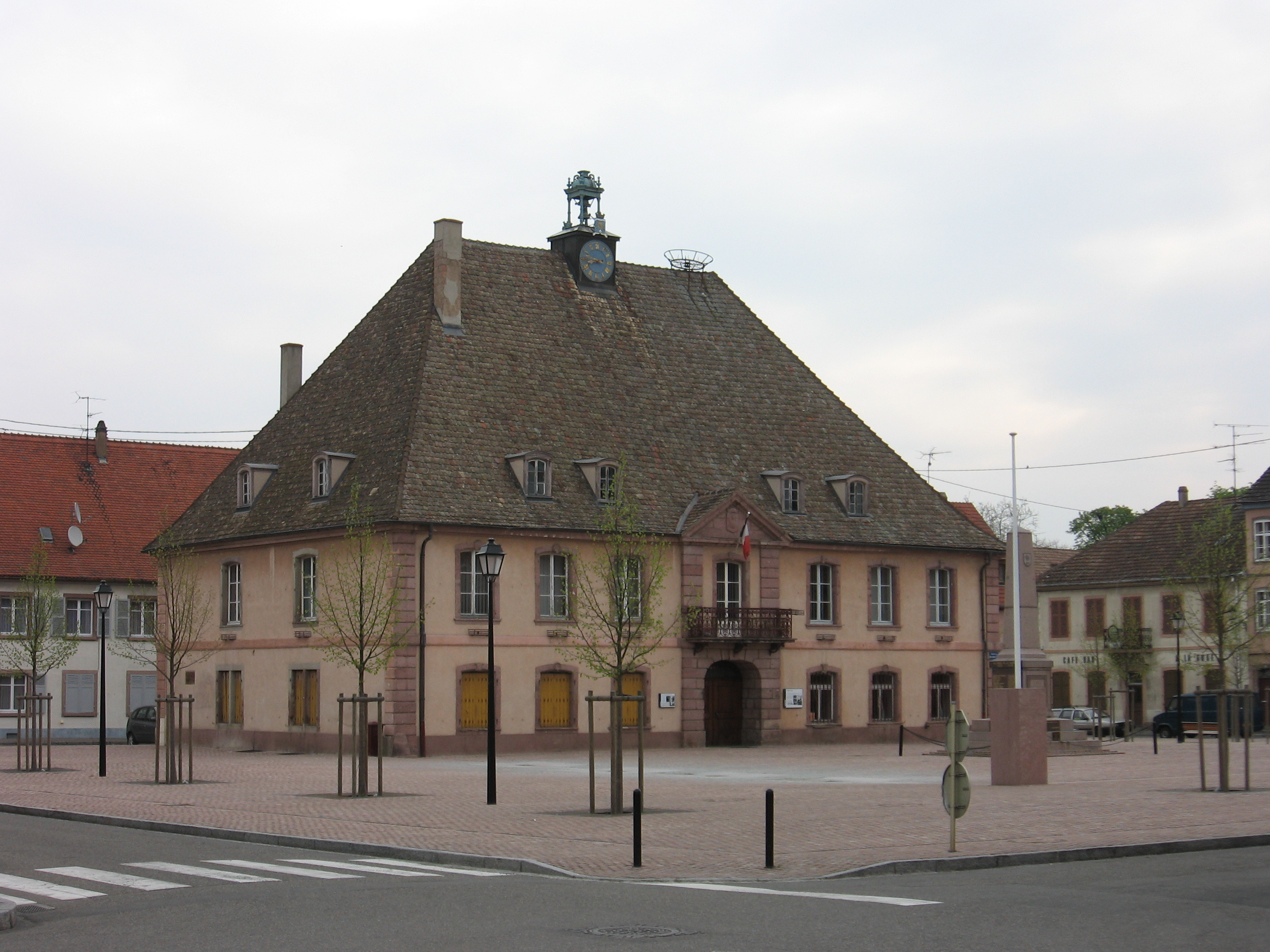 Neuf-Brisach